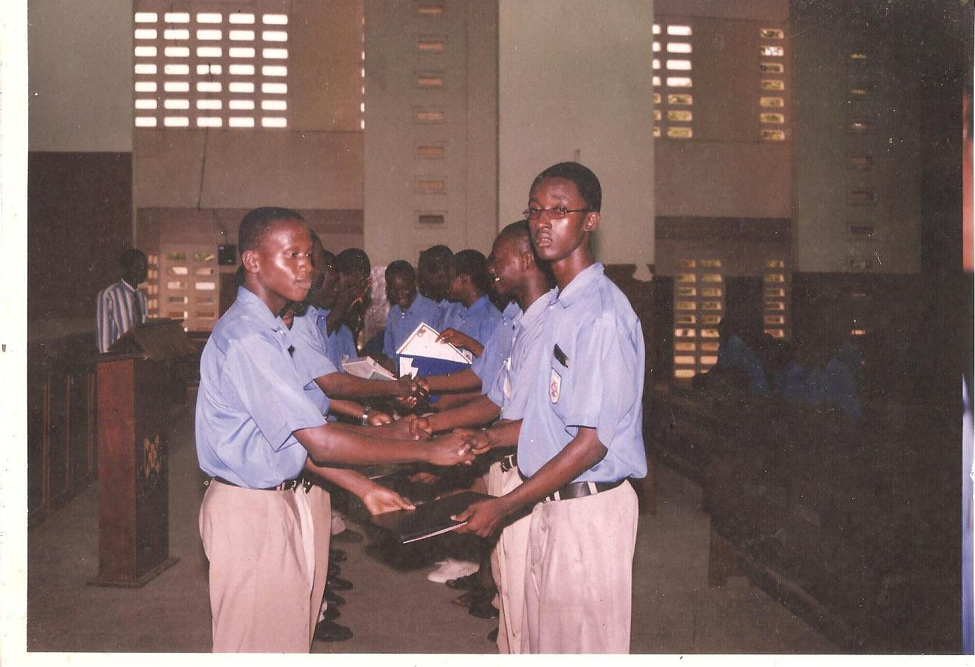 The 2002 PRESEC Civic Education Club handing over ceremony. On the right are the class of 2002 executives led by Yaw Boakye-YiadomYaw Boakye-Yiadom[1], Club President, (tallest) handing over to the class of 2003 executives. Looking on are former PRESEC headmaster J. J. Asare, NCCE officials and club patron Oromasis Abbey